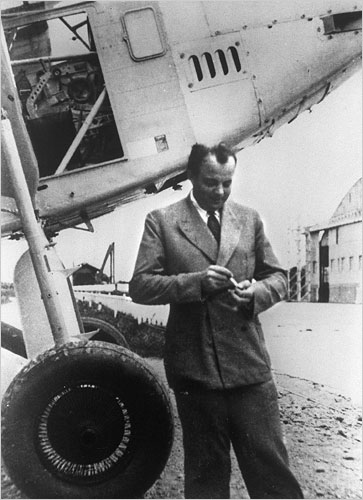 French writer, poet, and pioneering aviator Antoine de Saint-Exupéry in Toulouse, France.